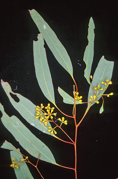 Flower buds of Eucalyptus crebra photographed on Carnarvon Station Reserve